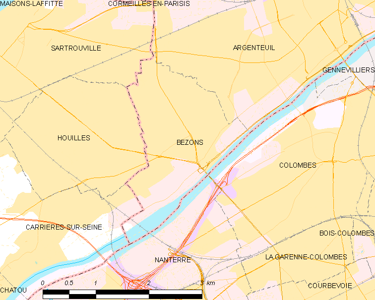 Map of French municipality Bezons